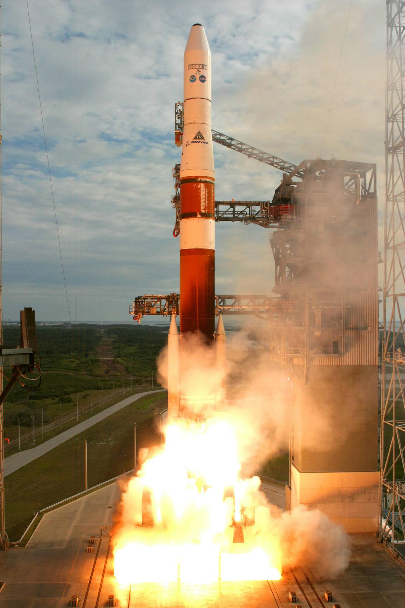 KENNEDY SPACE CENTER, FLA. – A Boeing Delta IV rocket roars off the launch pad to lift the GOES-N satellite on top into space. Liftoff from Launch Complex 37 at Cape Canaveral Air Force Station was on time at 6:11 p.m. EDT. GOES-N is the latest in the Earth-monitoring series of Geostationary Operational Environmental Satellites developed by NASA and the National Oceanic and Atmospheric Administration. By maintaining a stationary orbit, hovering over one position on the Earth's surface, GOES will be able to provide a constant vigil for the atmospheric "triggers" for severe weather conditions such as tornadoes, flash floods, hail storms and hurricanes.